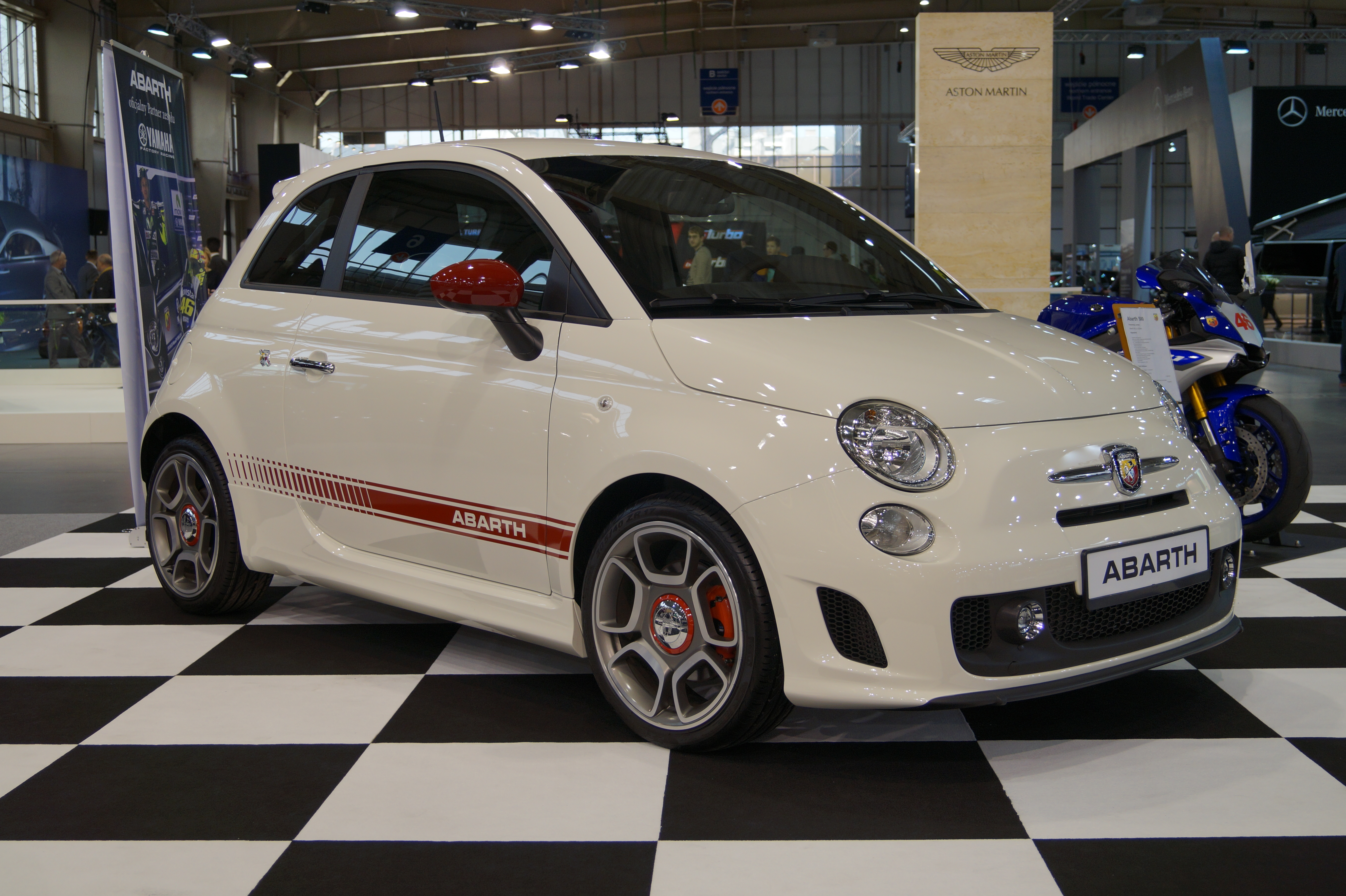 The making of this document was supported by Wikimedia Polska Association, within Wikigrant no. WG 2015-19. Abarth 500 na Motor Show Poznań 2015